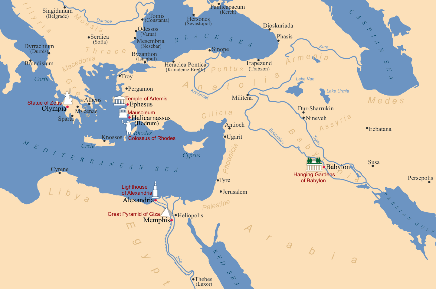 Seven Wonders of the Ancient World.